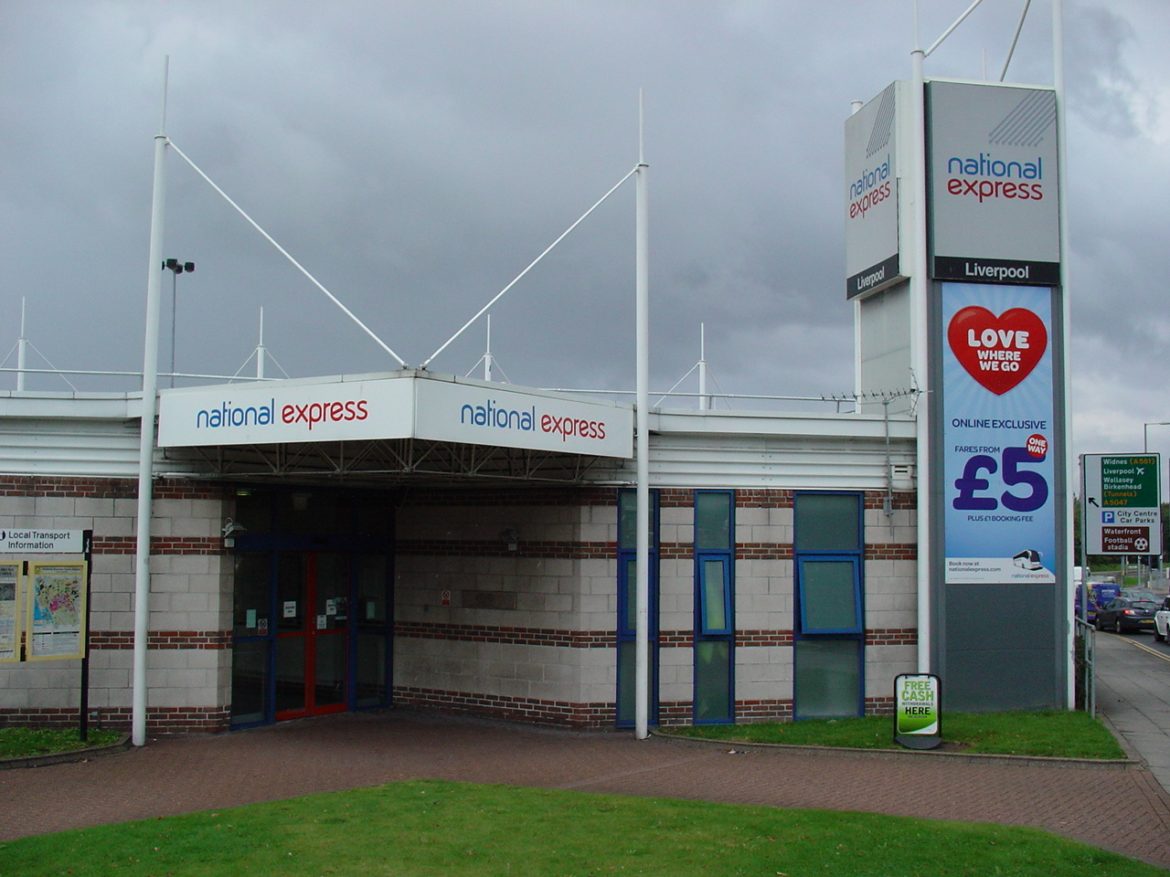 Photo taken at Liverpool coach station, England.